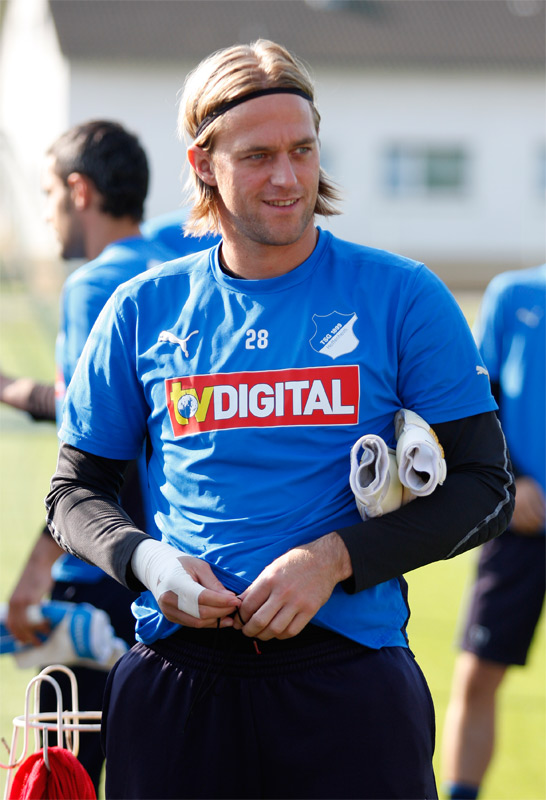 training session autumn 2009